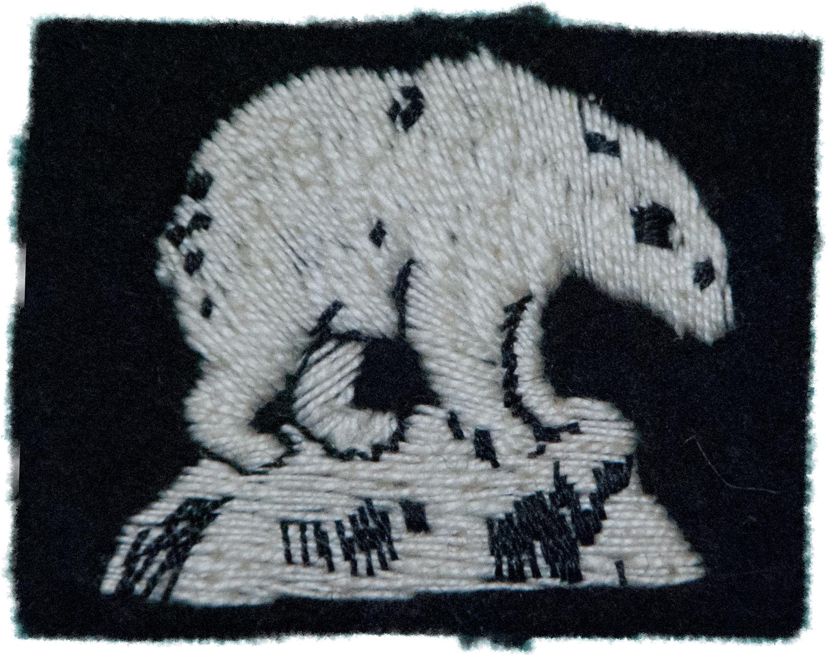 49th (West Riding) Infantry Division patch. Second pattern, embroidered felt, used.